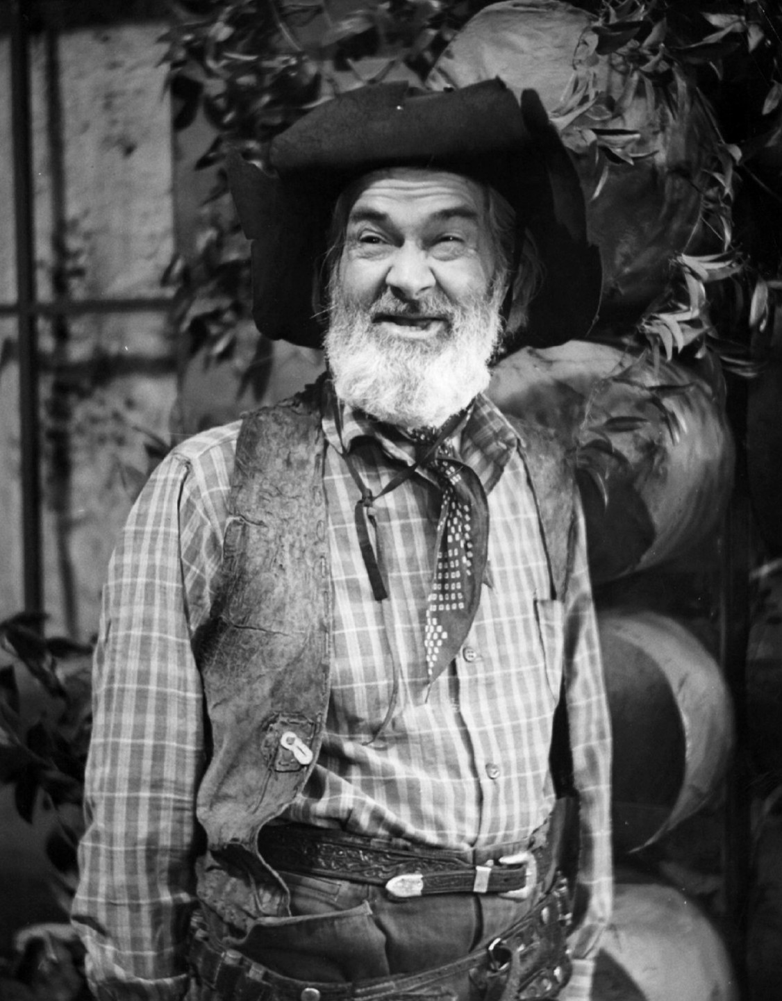 Photo of George 'Gabby' Hayes who was well-known for his portrayal of cowboys in western films and television shows. He was the host of a weekday program on NBC in the early 1950s. This 15 minute program ran just before Howdy Doody.